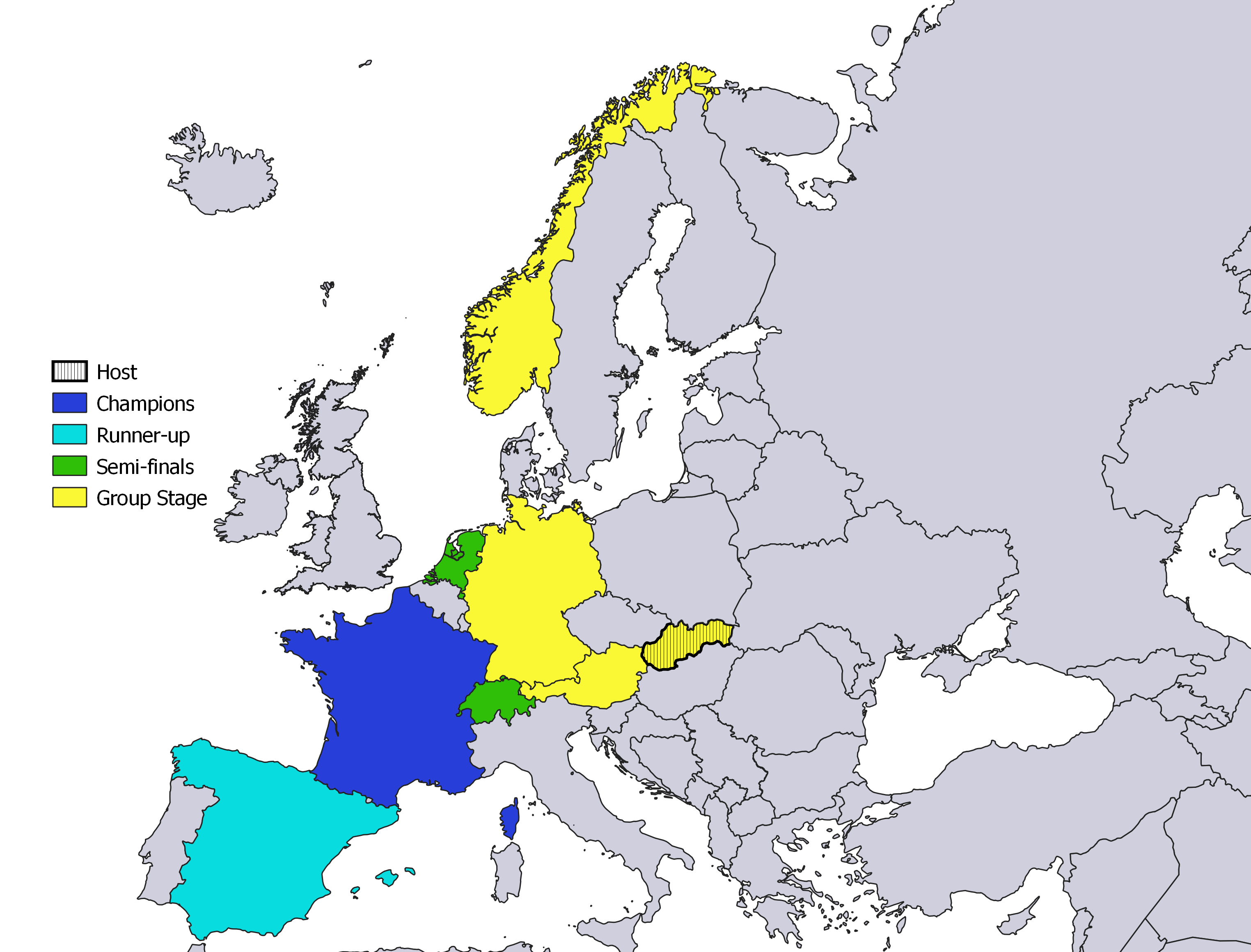 Results of teams participating at the 2016 UEFA Women's Under-17 Championship (Update after the Final)